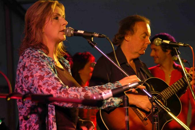 Original description from the en: wikipedia: I took this image myself with a digital camera while Clannad were performing at Leo's Tavern, Co.Donegal, Ireland. There i release all copyright to use it in 'Clannad'.